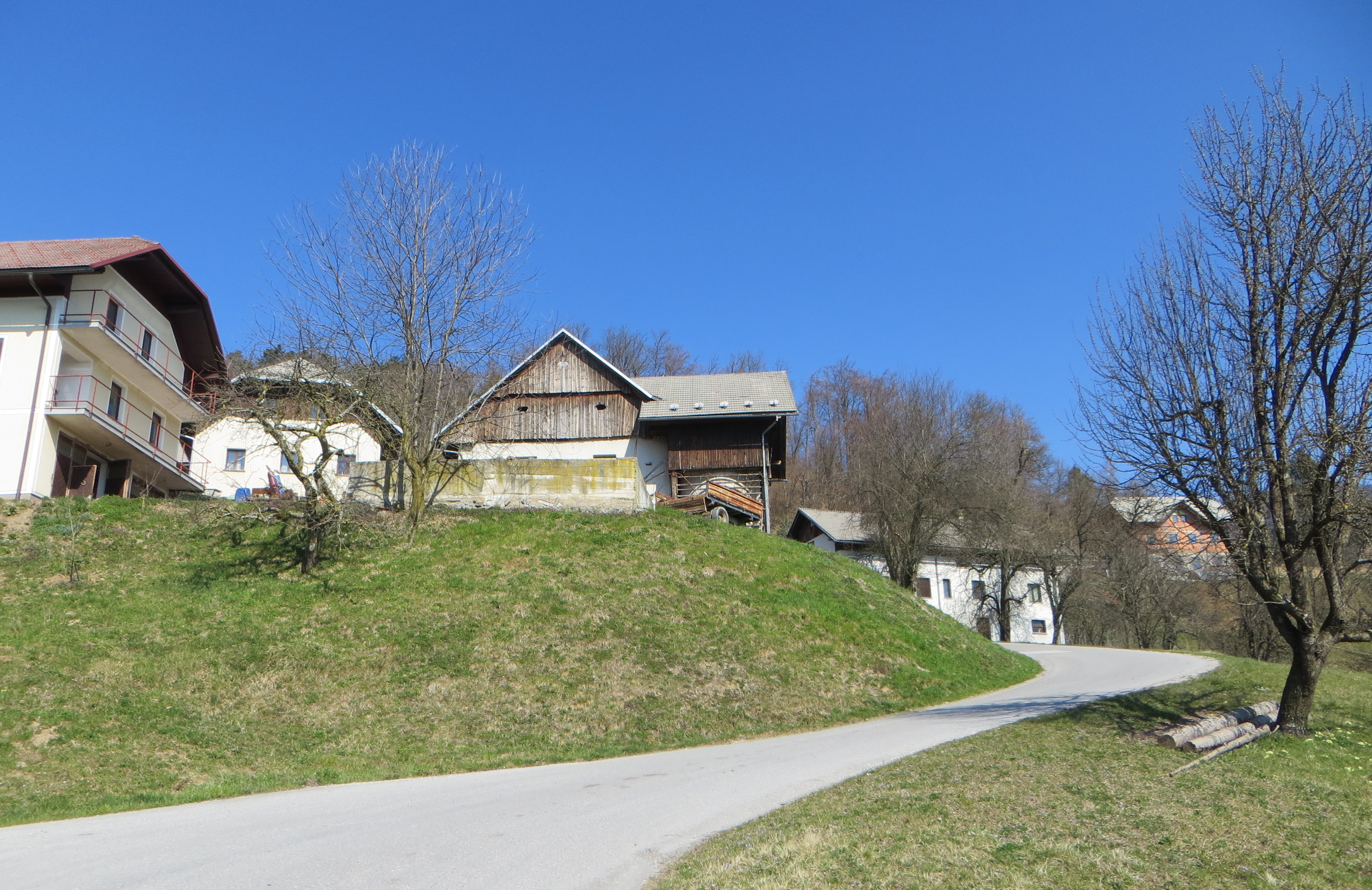 Debeni, Municipality of Gorenja Vas–Poljane, Slovenia